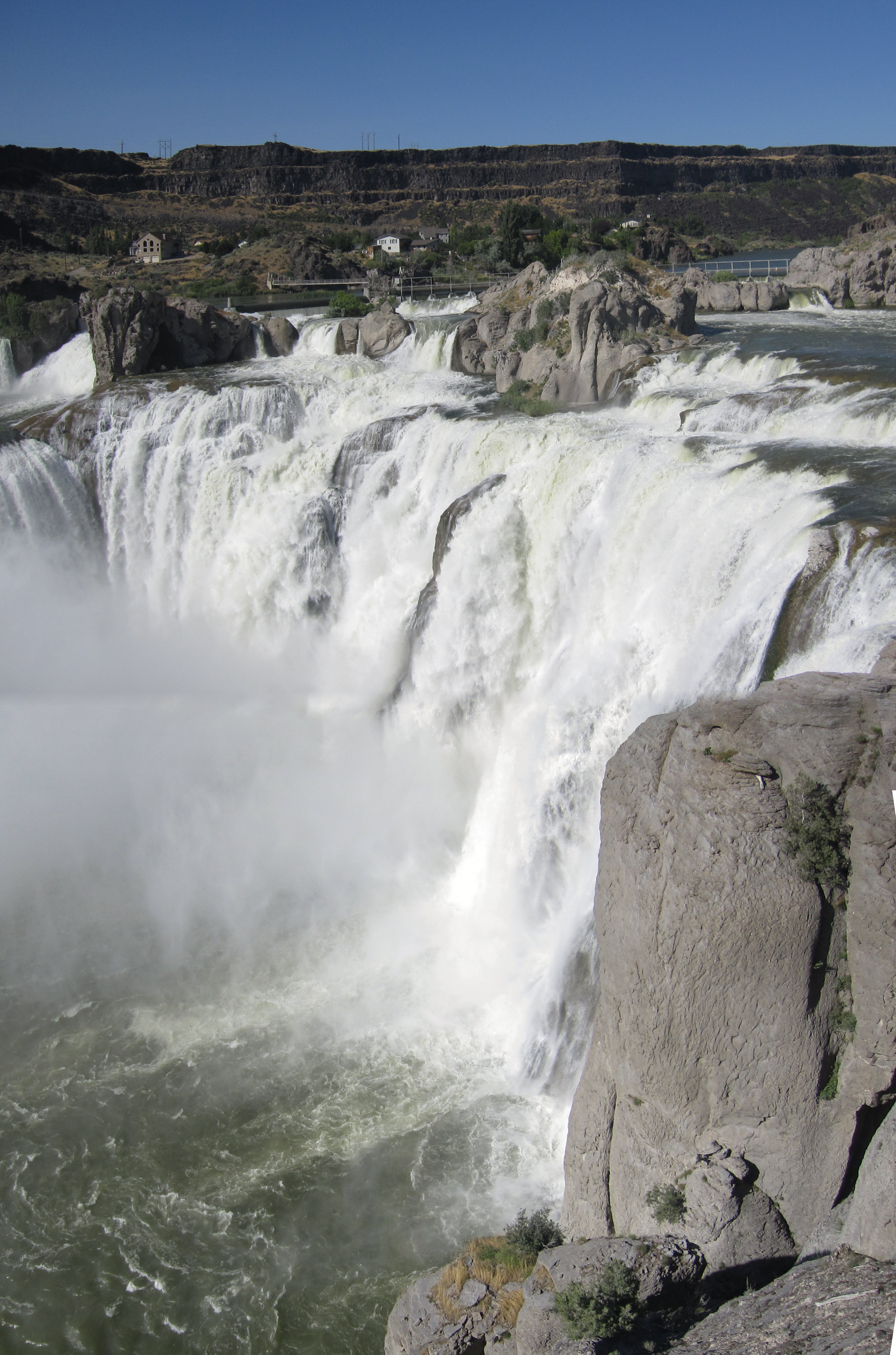 Shoshone Falls in Idaho, USA